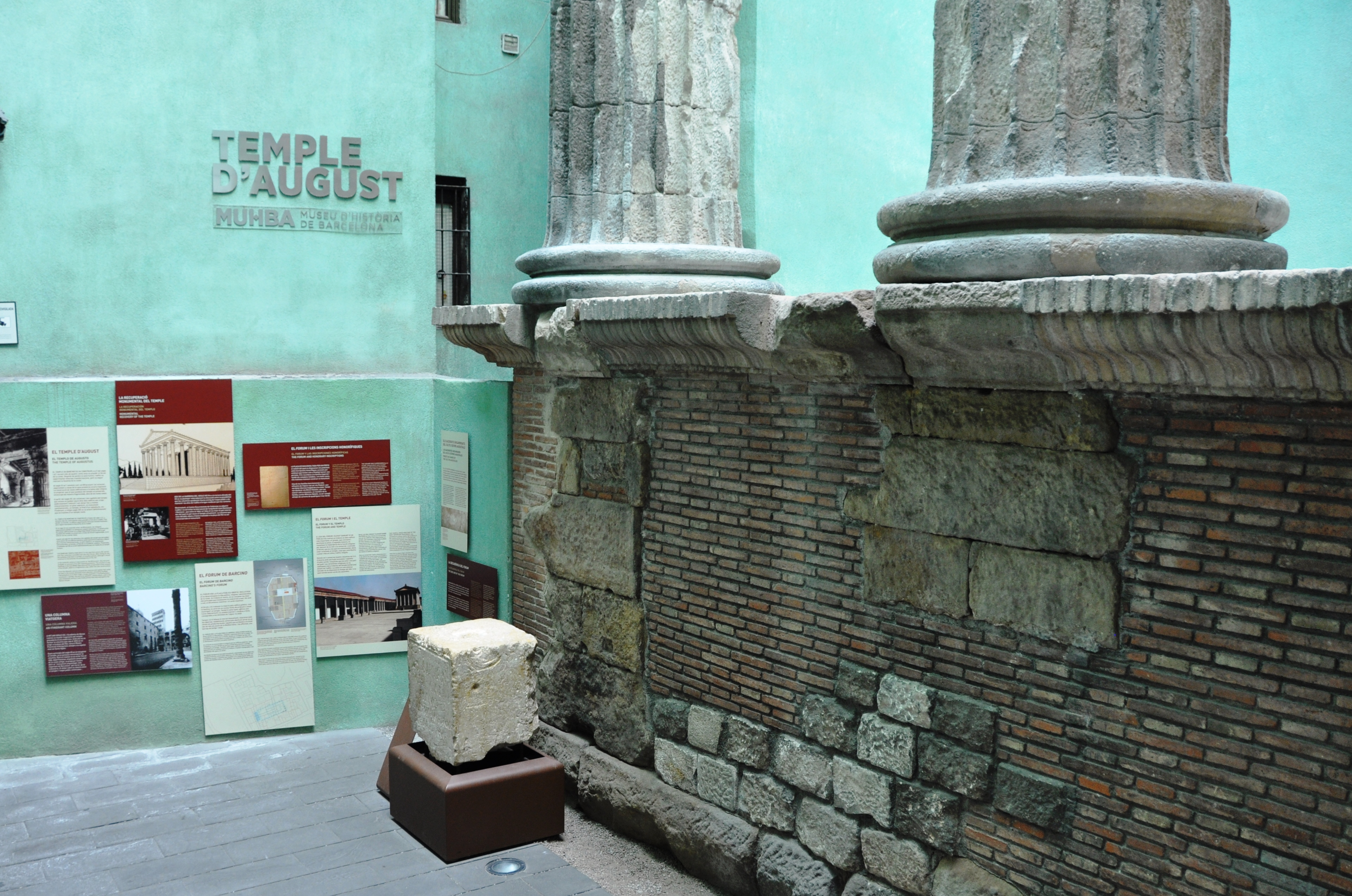 Interior of the Temple of Augustus in Barcelona